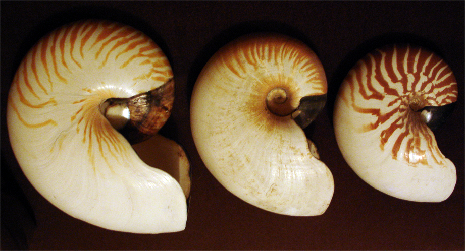 Shells of different species of the “primitive” cephalopod family Nautilidae. Left: Nautilus macromphalus; center: Allonautilus scrobiculatus; right: Nautilus pompilius.